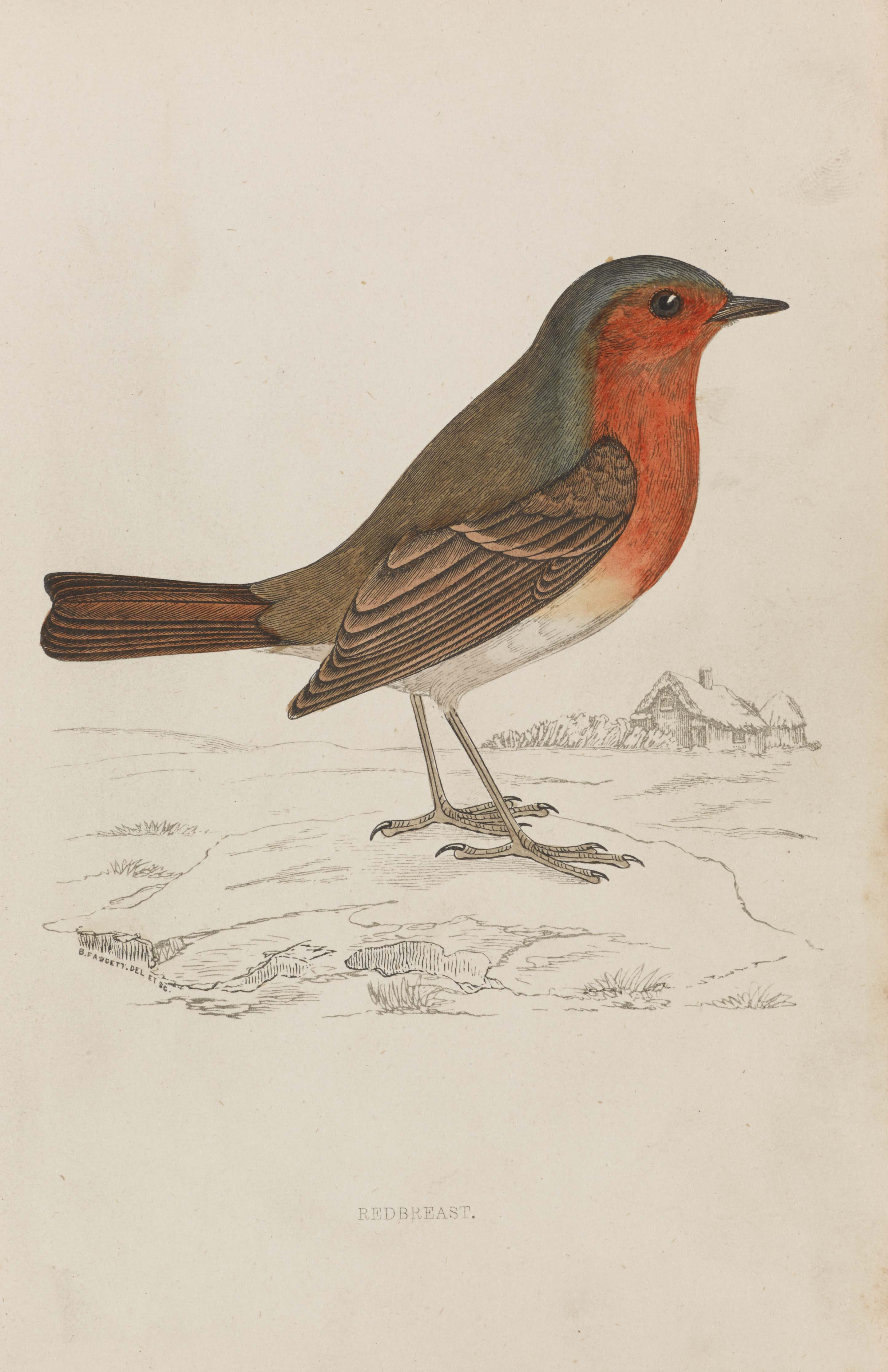 This engraving is by Benjamin Fawcett (1808-1893), one of the finest of the nineteenth-century woodblock color printers. The work appeared in volume 3 of Morris’s A History of British Birds (1853) and was engraved by Fawcett from his original drawing. Alexander Francis Lydon (1836-1917), was one of the principal engravers and contributed much to the technique and design.